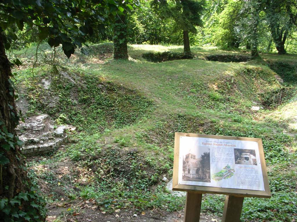 Devasted village of Craonne (Chemin des dames)